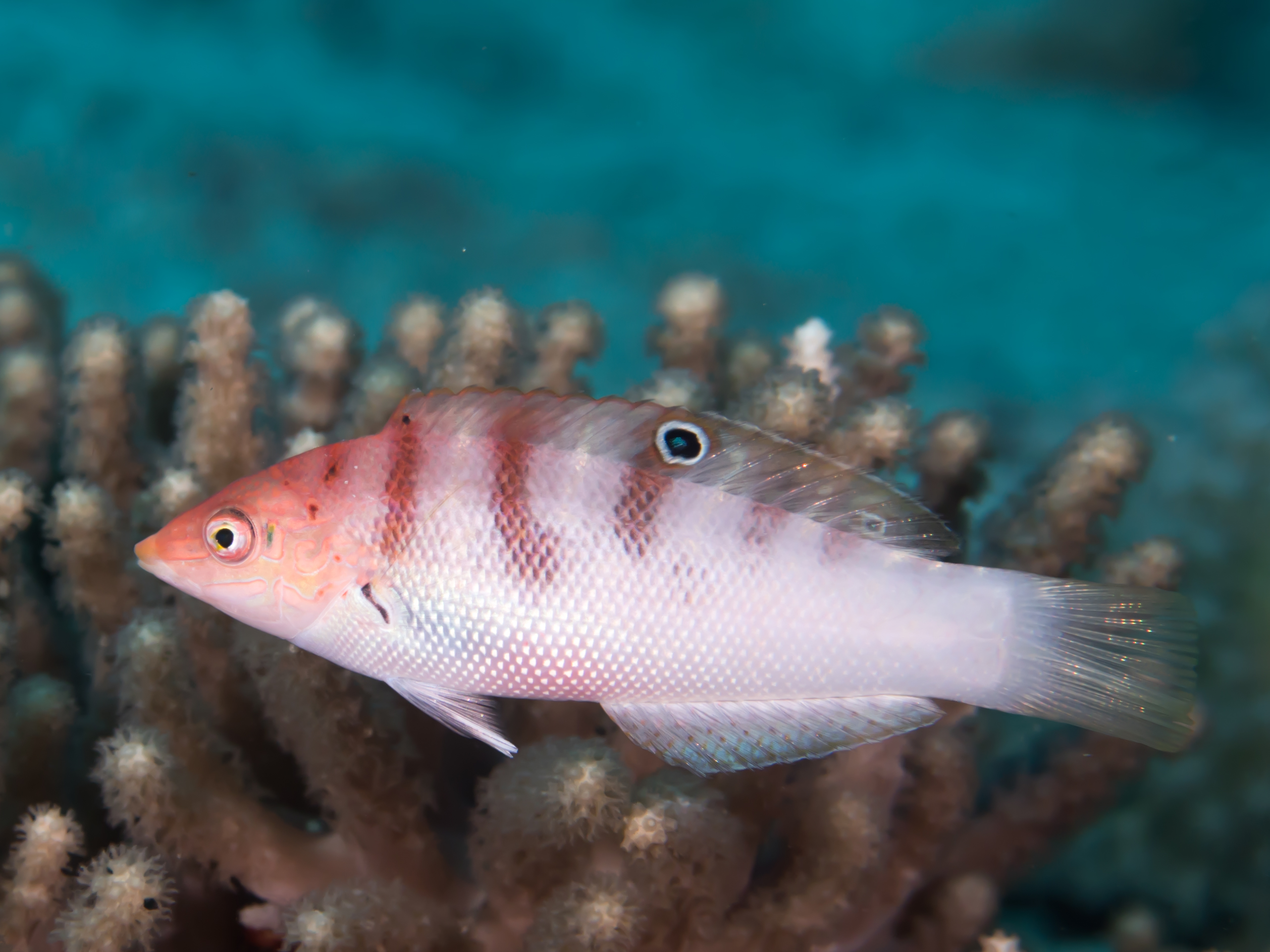 Romblon, Philippines - Batu coris (Coris batuensis)